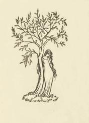 Device of the Dun Emer Press, from a wood engraving by Elinor Monsell, showing Emer standing by a tree